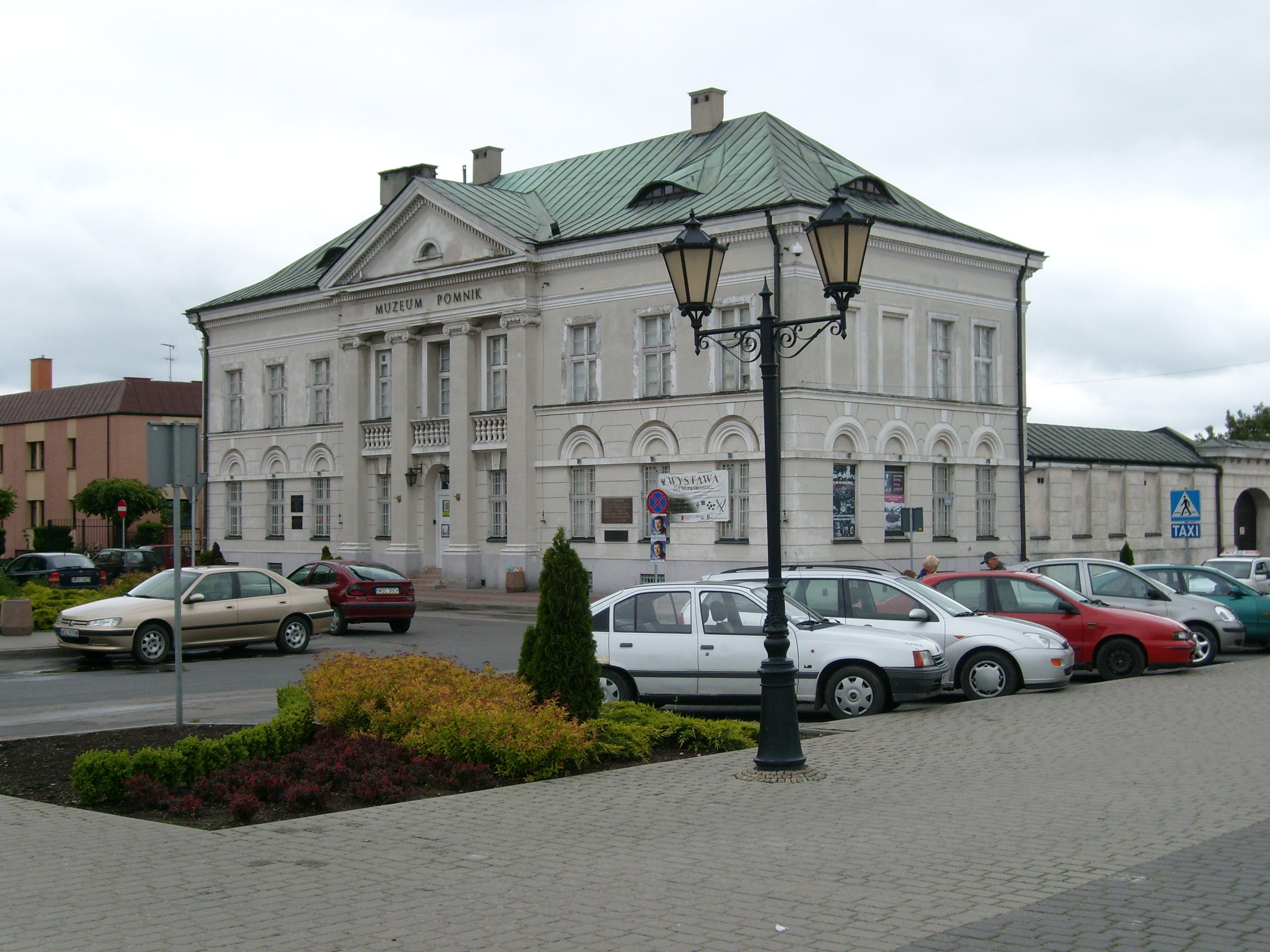 Sochaczew - museum in town hall